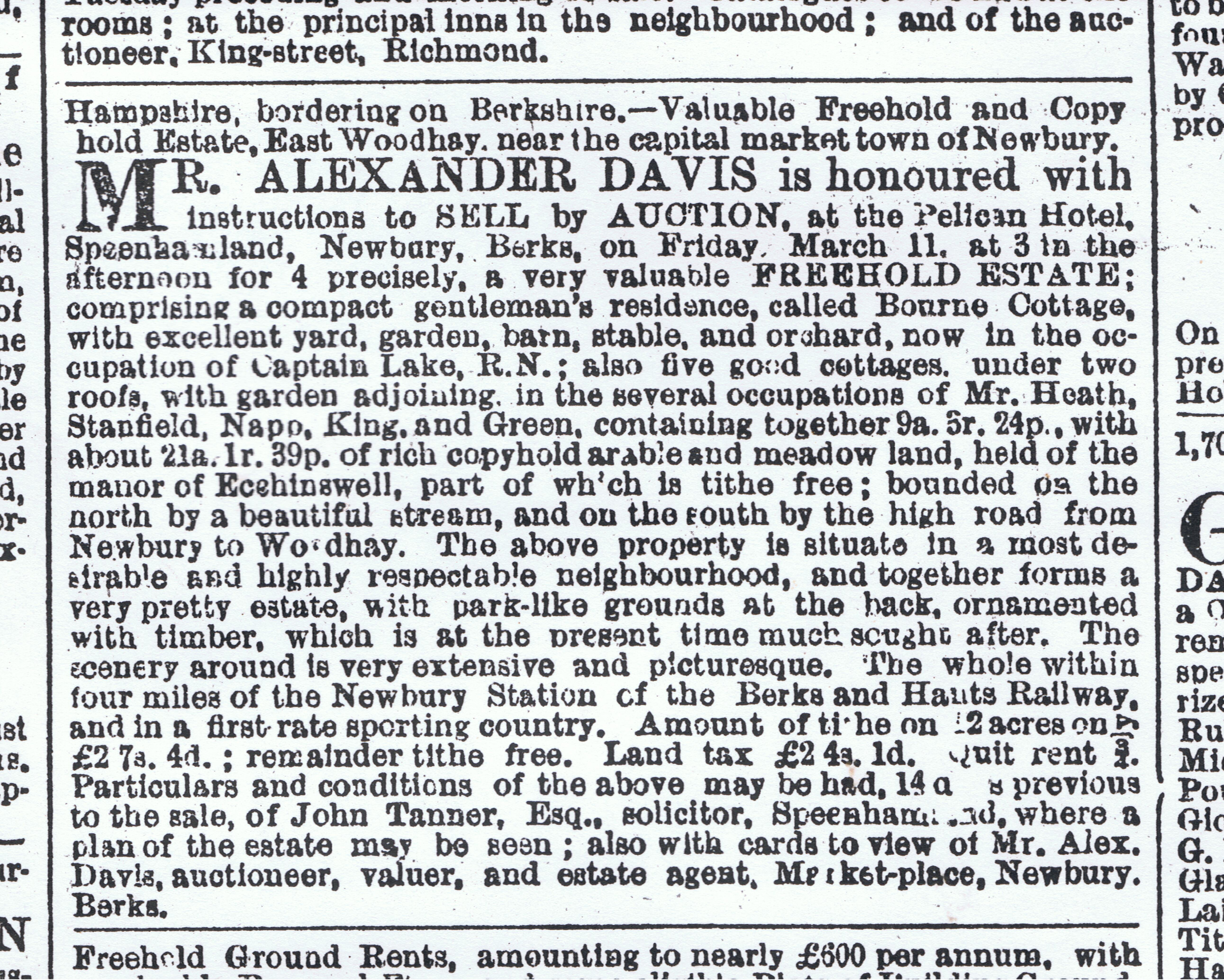 Scan (by me, R. de Salis, Rodolph (talk) 23:25, 7 October 2015 (UTC)) of an advert for the sale of Bourne Cottage, later House, East Woodhay, in The Times, London, Tuesday, March 1, 1853.